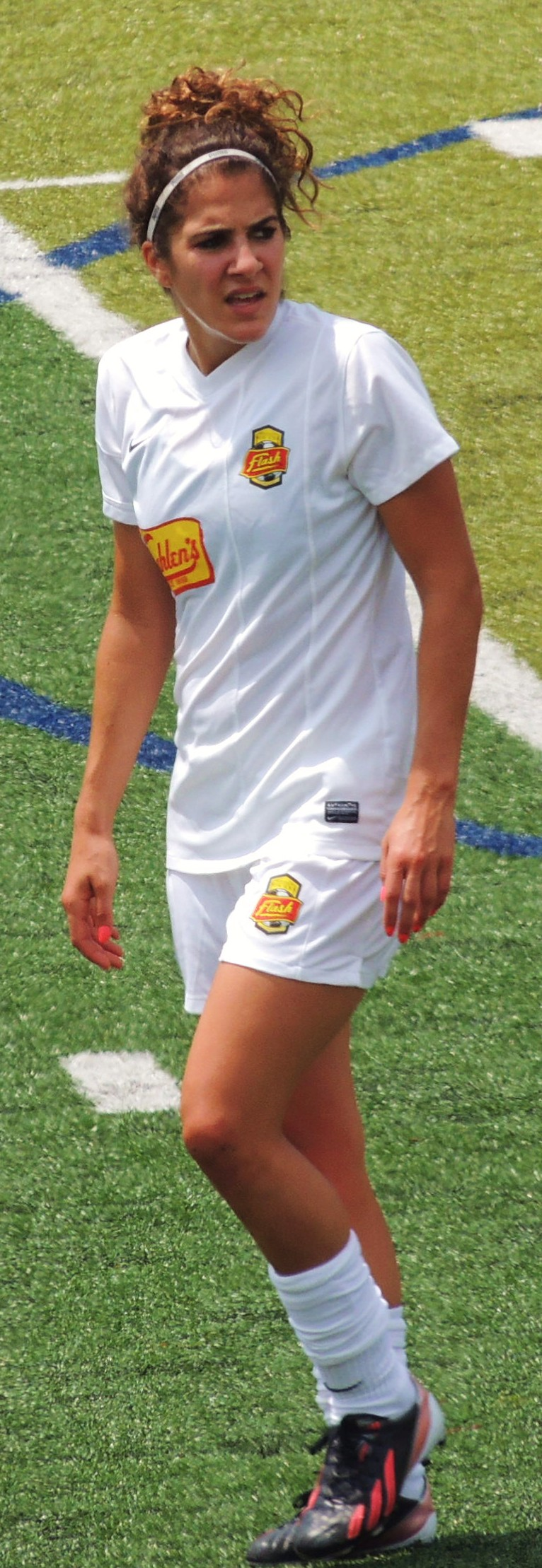 2013-07-04; Angela Salem in Chicago Red Stars vs Western New York Flash